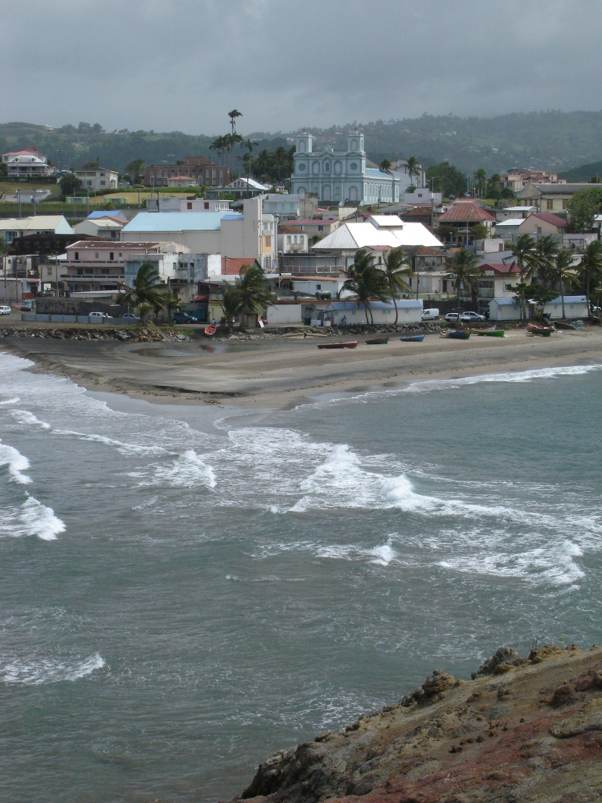 Sainte-Marie (Martinique).